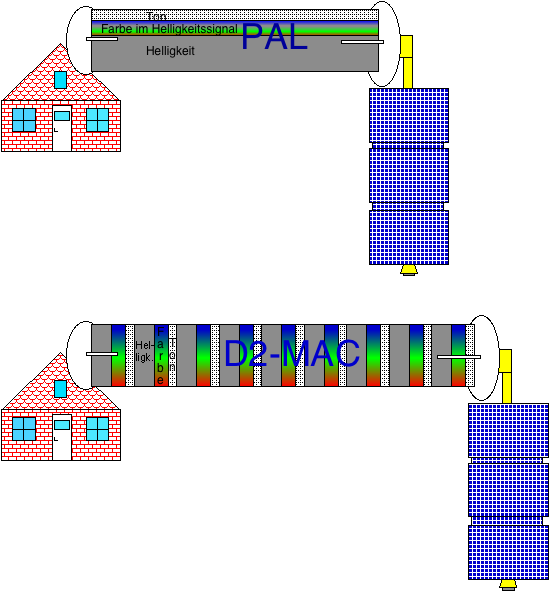 The simultanius PAL trasmission of all TV-picture elements and the multiplexed transmission of the TV picture elements with D2-MAC. (german text)